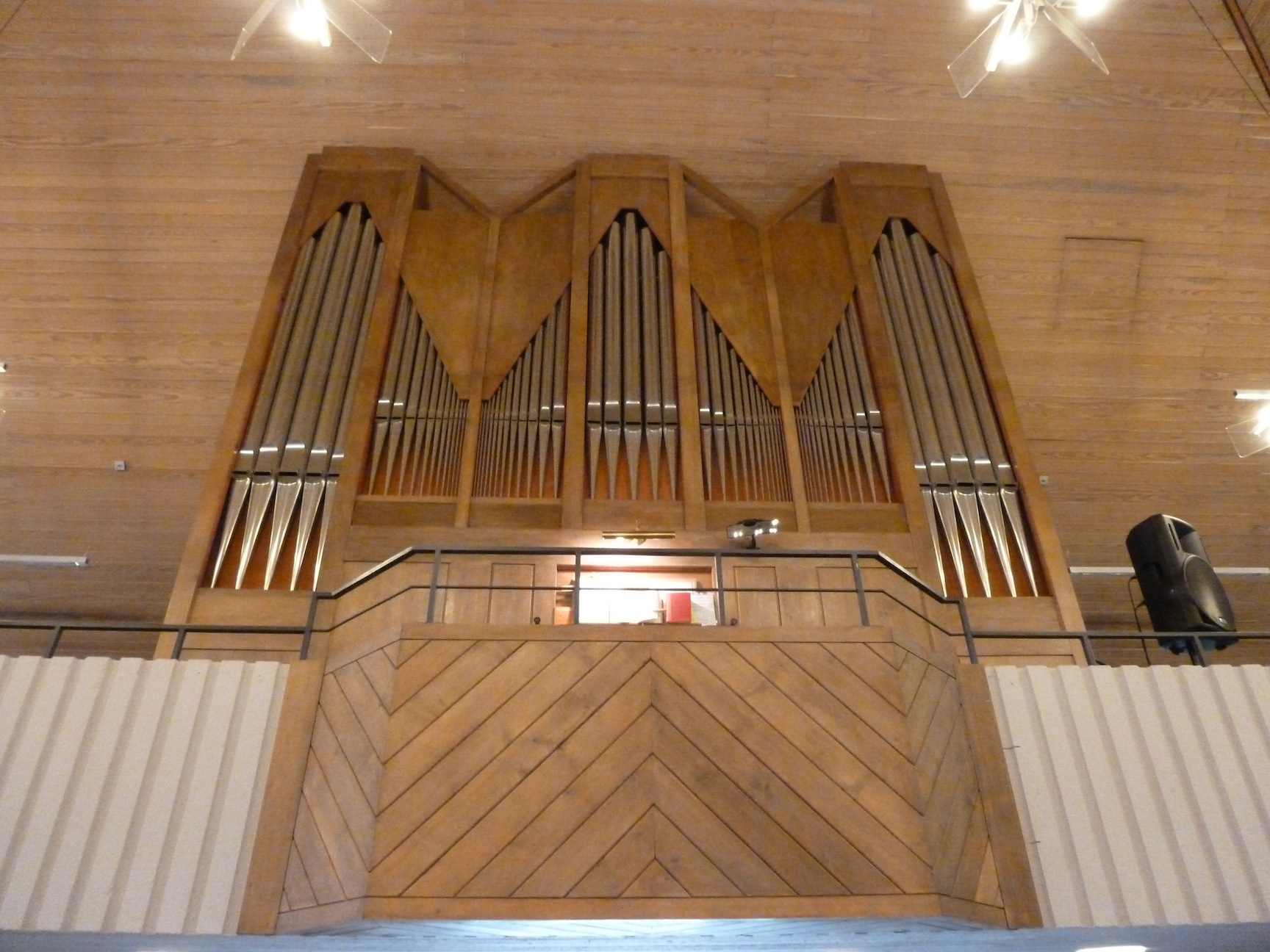 Christuskirche Hiltrup Orgel